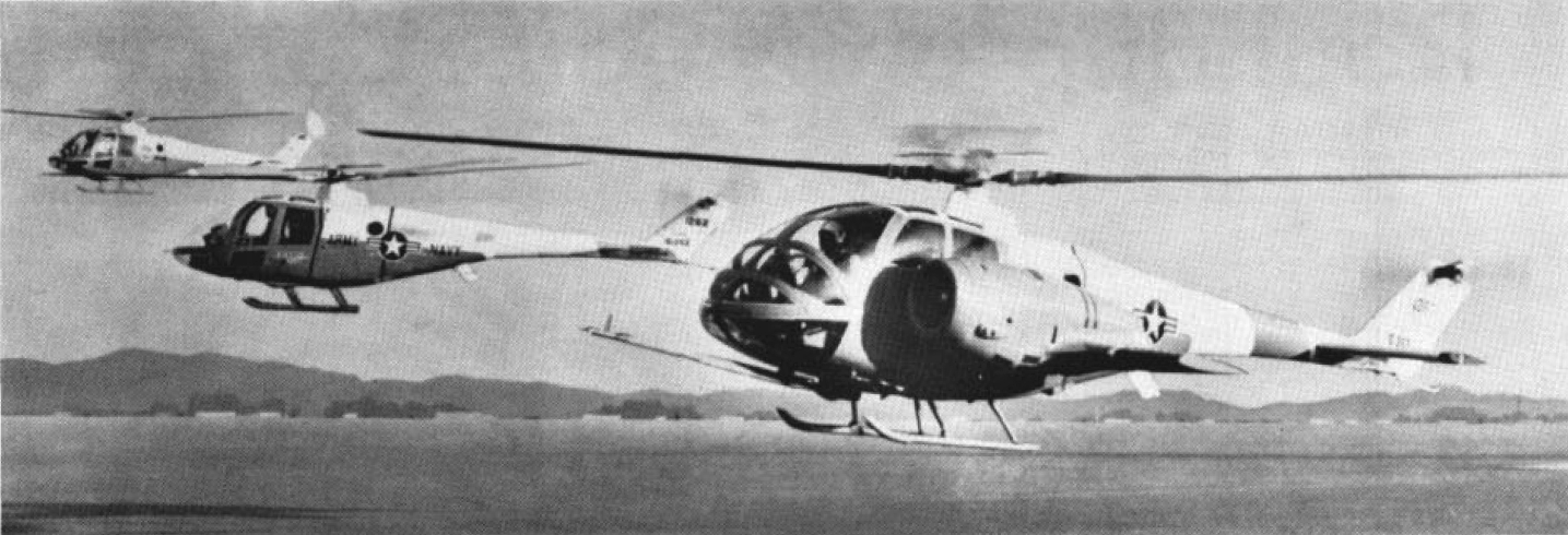 The three experimental Lockheed XH-51 helicopters in flight (front to back): XH-51A Compound, modified with a four-bladed rotor and stub wings and an auxiliary 2,900 hp Pratt & Whitney J60-2 engine; XH-51A, it had four places and a three-bladed rotor; XH-51N, with five places, a three-bladed rotor, built for NASA test purposes.